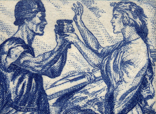 Series for social help with pictures of the work of Richard Wagner Ausgabepreis: 20+10 Reichspfennig First Day of Issue / Erstausgabetag: 1. November 1933 Michel-Katalog-Nr: 505 (Deutsches Reich)